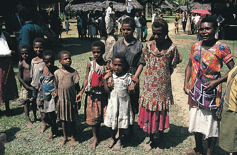 A typical scene in a village that has lost many of its young men to the towns as rural-urban migrants. The population structure of such villages is quite unbalanced.